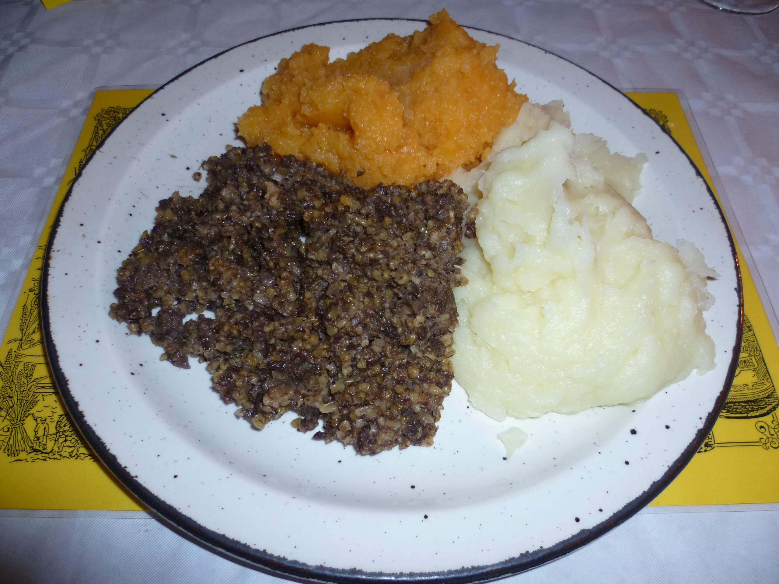 Haggis served wi' tatties an' neeps at an Edinburgh Burns Supper in 2012